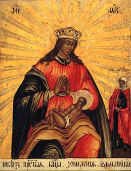 Our Lady of Balikinska icon.